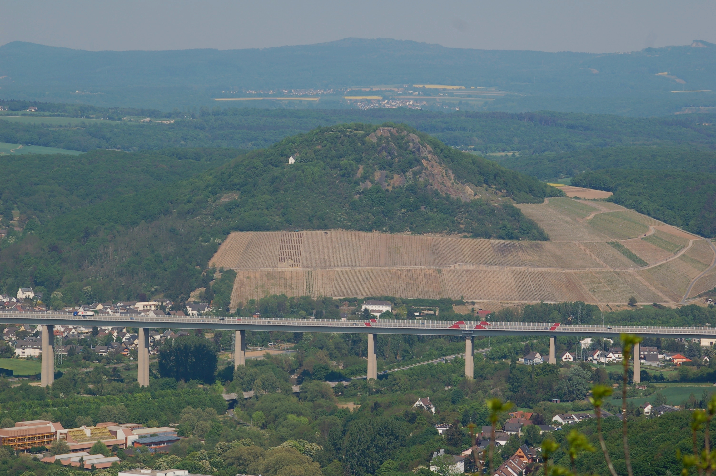 The Landskrone seen from the Langer Köbes observation tower on the Neuenahrer Berg. Eifel region, Germany